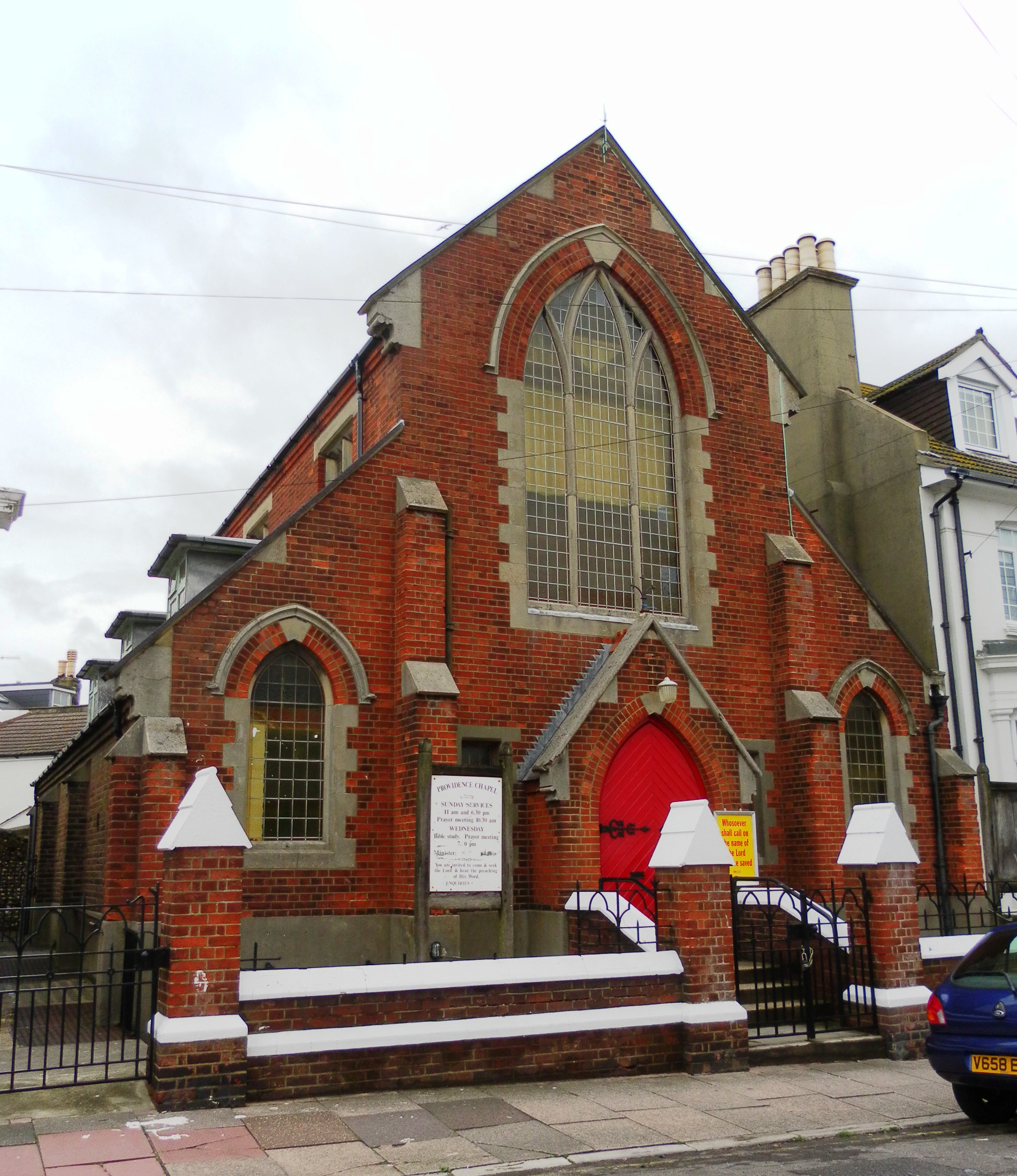 Providence Strict Baptist Chapel, West Hill Road, Brighton, City of Brighton and Hove, England. Originally the Nathaniel Reformed Episcopal Church, built in 1894-96. In 1965, the congregation of the former Providence Chapel in Bread Street, Brighton, moved in here after the old chapel was demolished.